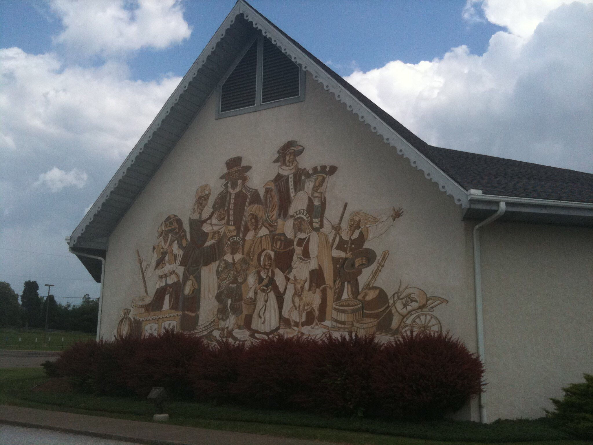 Amish and Mennonite Heritage Center in Berlin, Ohio